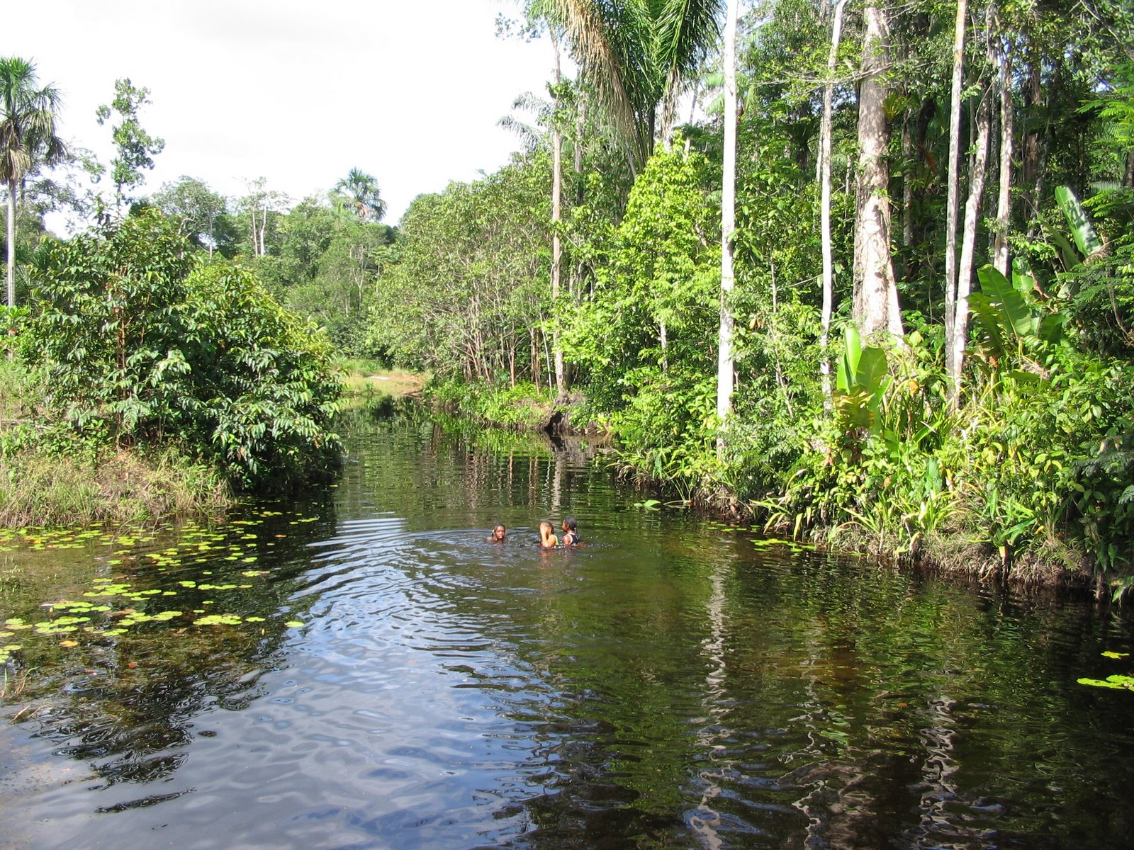 The almost black water of Colakreek in Suriname is popular for recreational swimming.